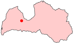 Location map of Tukums city, Latvia.